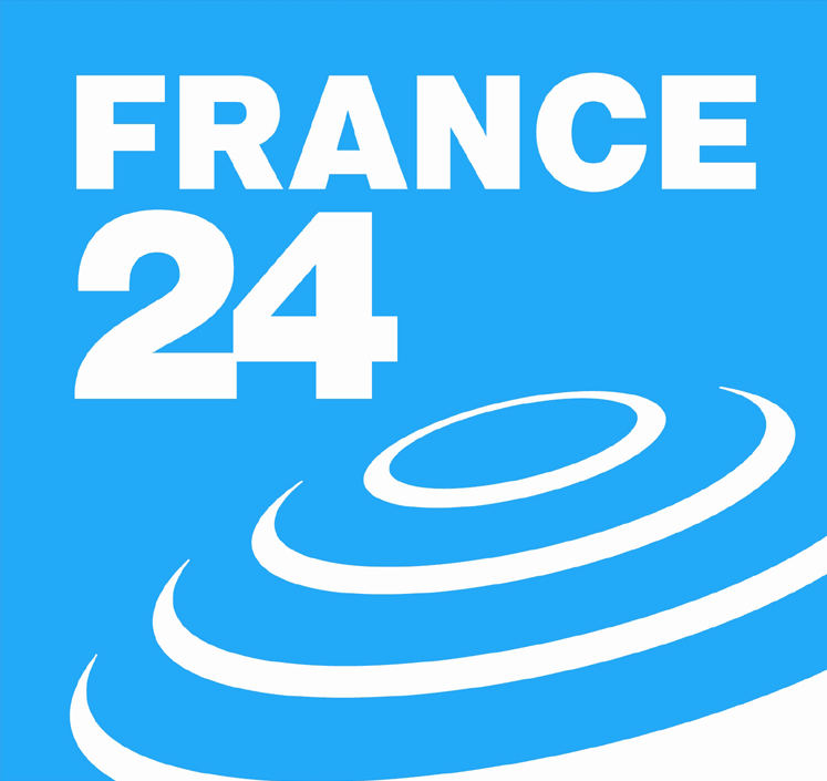 Logo of international channel France 24, owned by France Télévisions